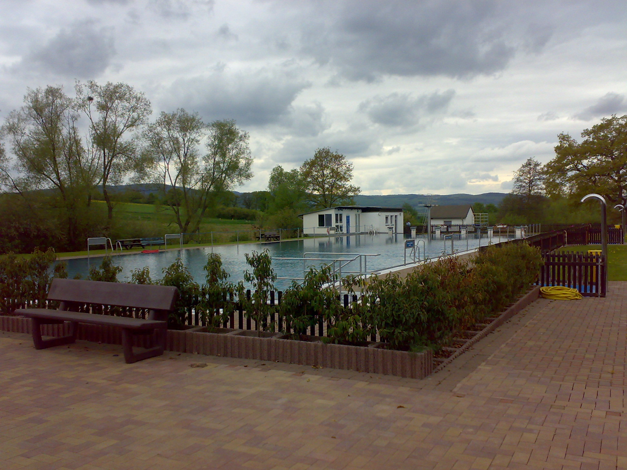 Ludwig Bender Bath in Wehrheim, Hesse, Germany: Main pool